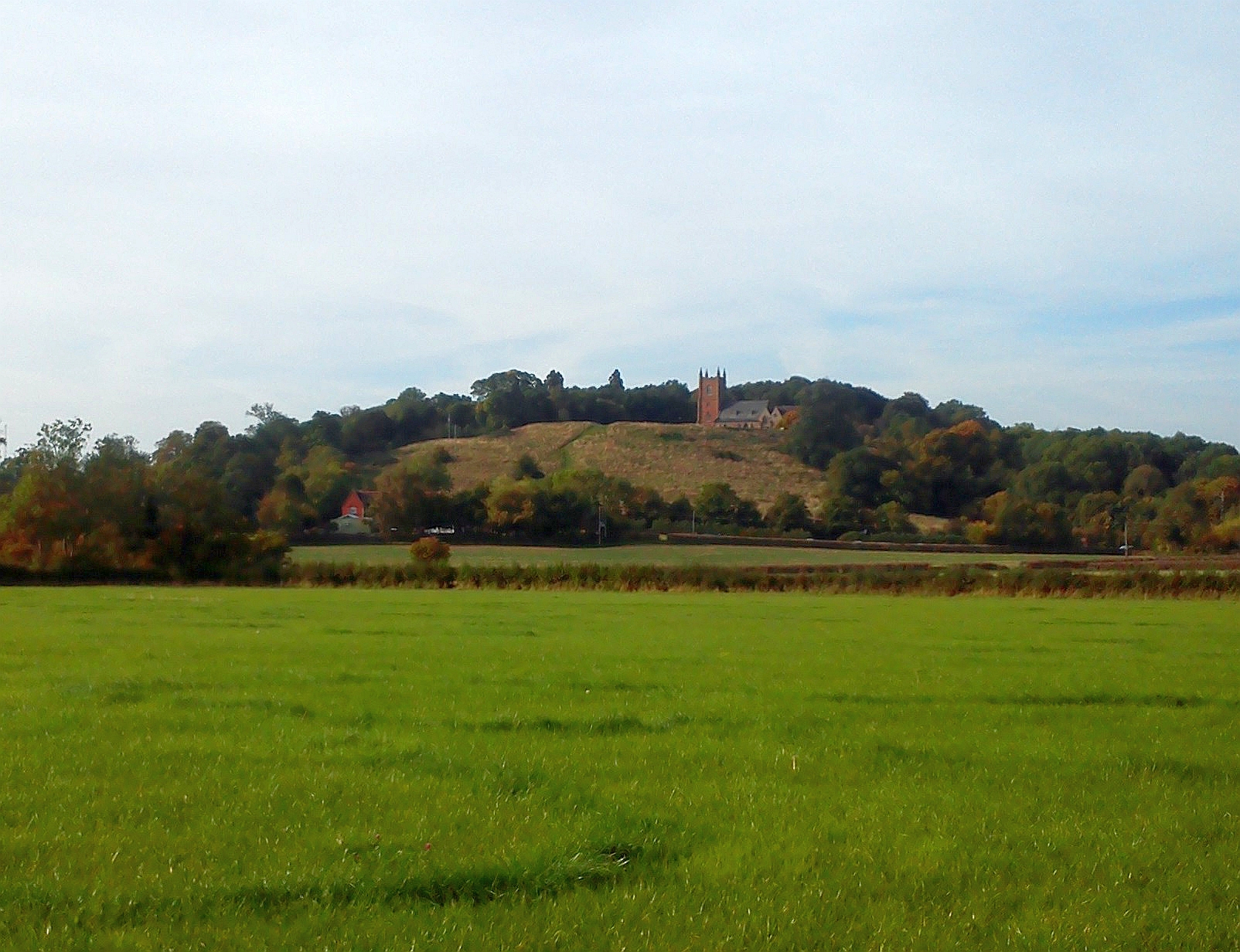 Hanbury, Worcestershire, England: View of St Mary's Church and the hill